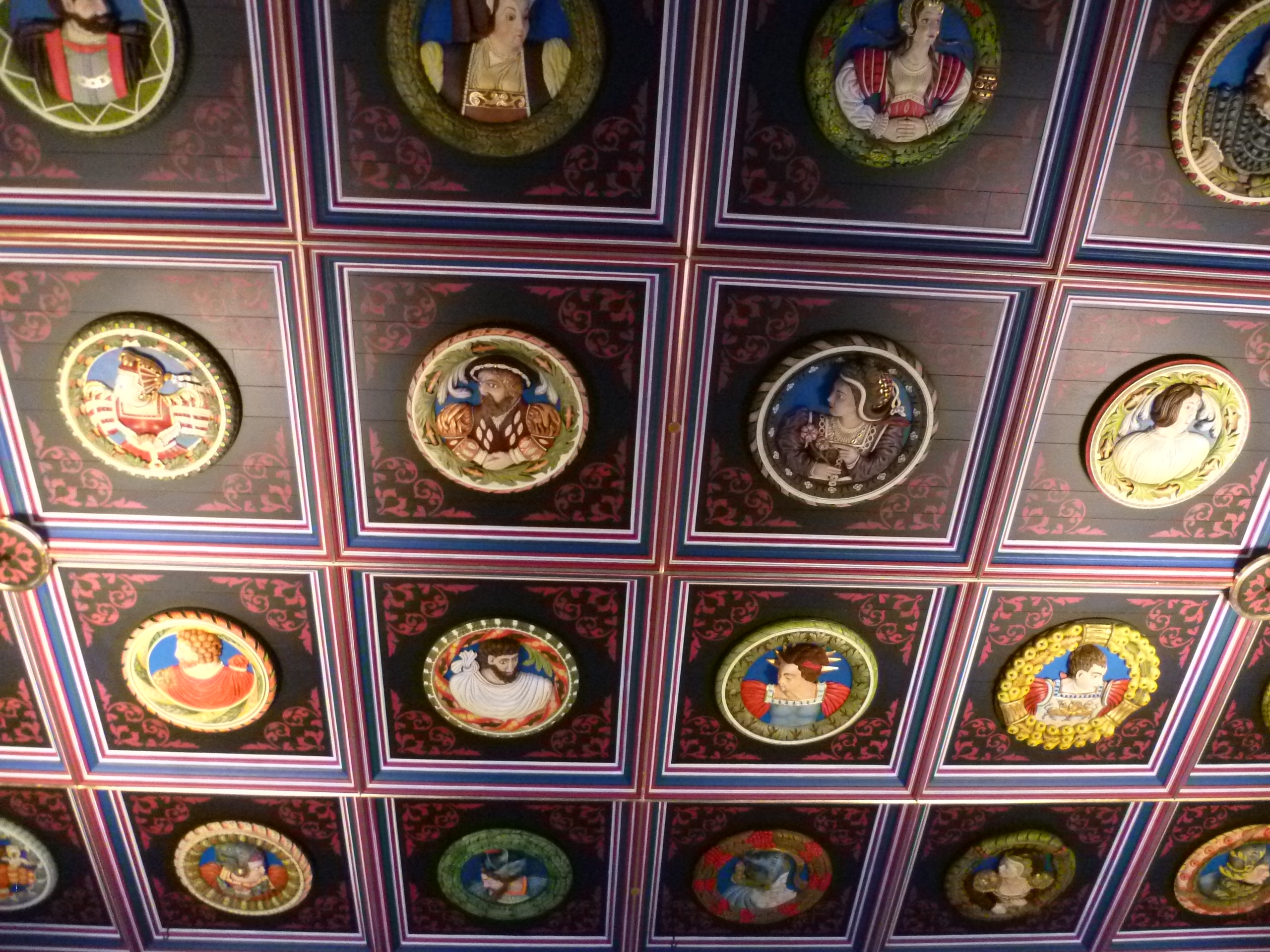 Part of the restored ceiling incorporating replicas of the 16thC carved oak roundels known as the Stirling Heads